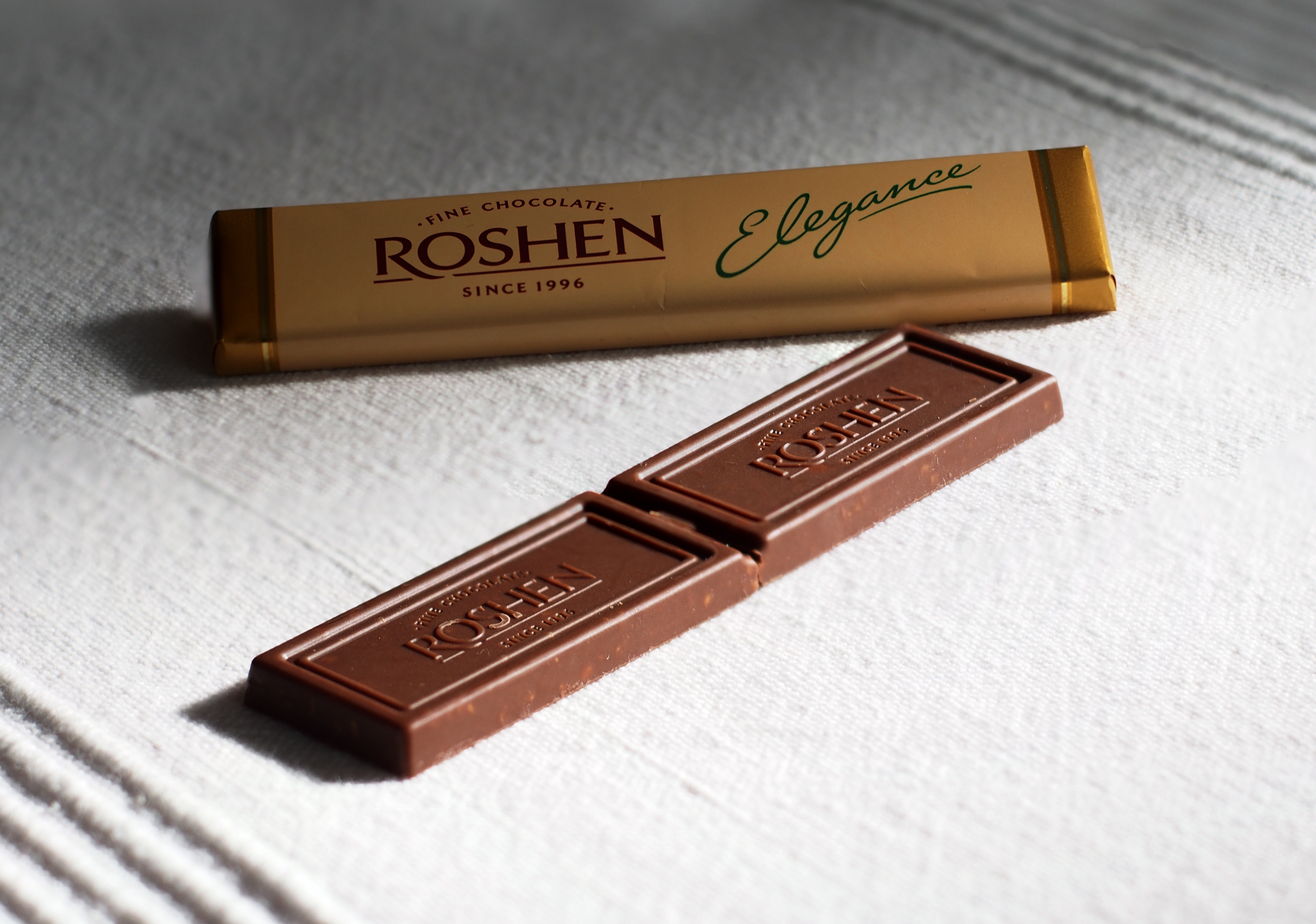 Roshen chocolate. UkraineСрпски (ћирилица): Украјинска чоколада Рошен. Компанија је (била) председника Петра Порошенка по коме чоколада носи име.